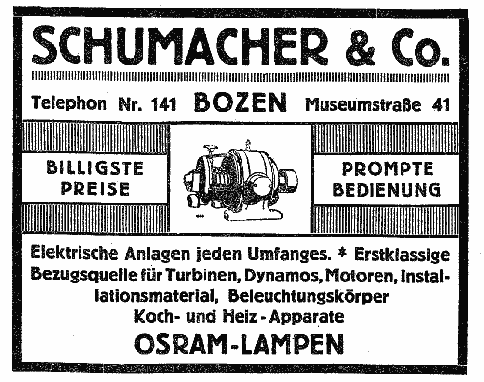 Advertisement for Osram lamps 1925